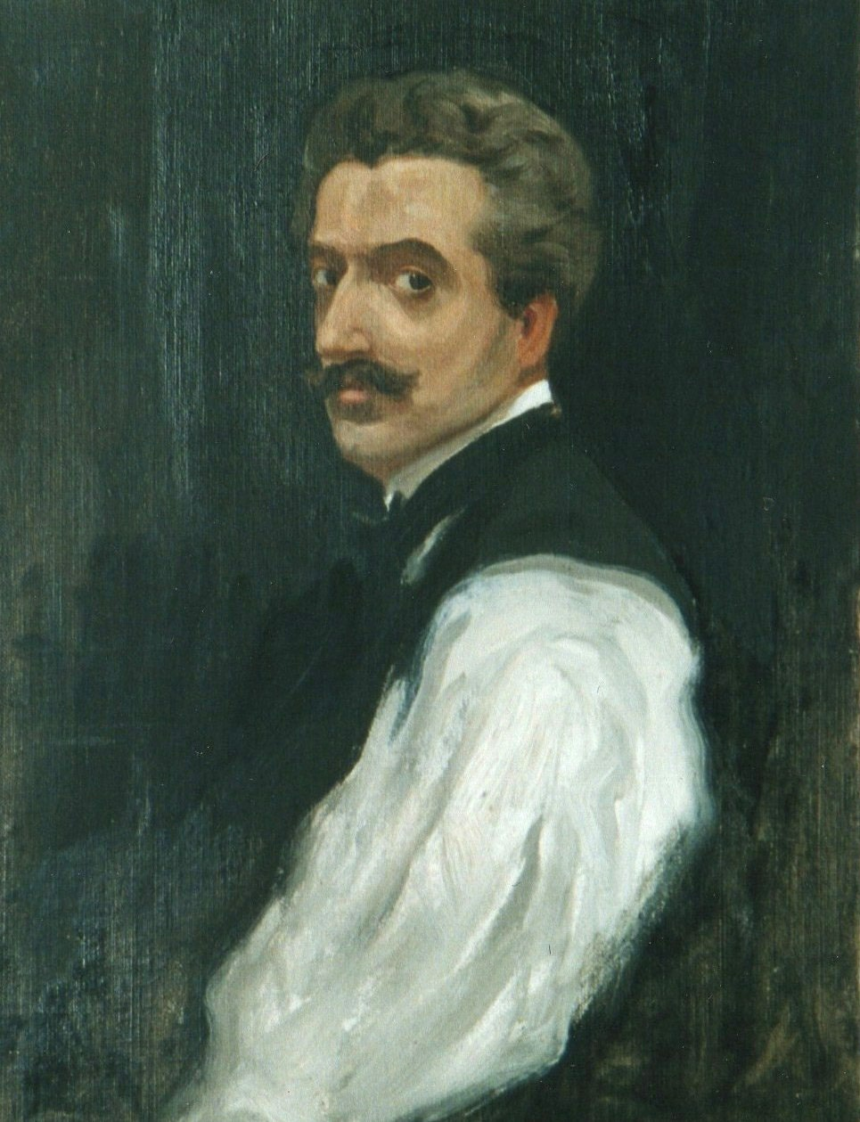 This is a photograph taken by me of a self-portrait painted by the artist around 1900. The original painting is owned by my wife, a descendant of the artist, who has given free use permission.